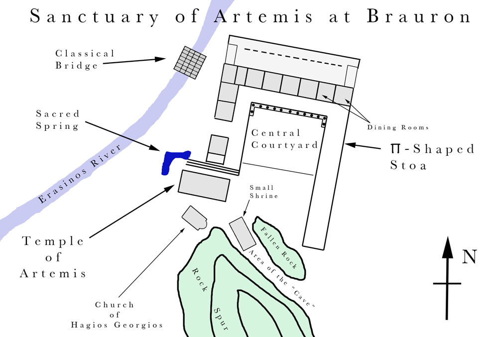 Labelled plan of the Sanctuary of Artemis J.M. Harrington, self-made image